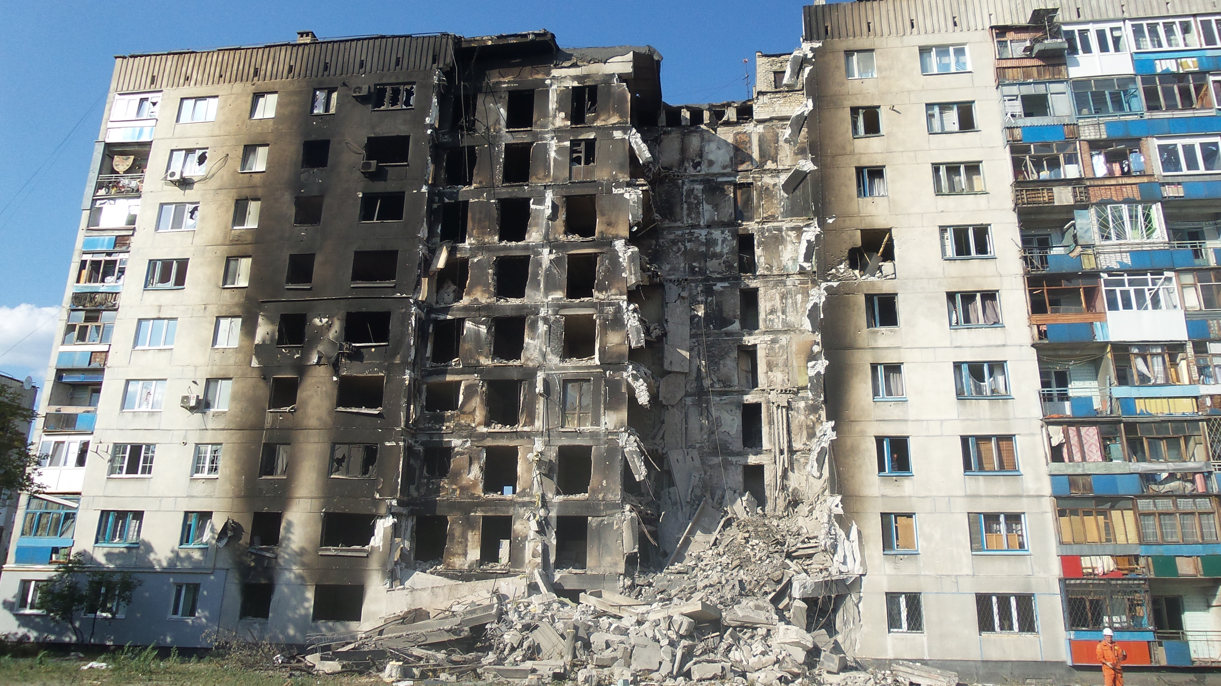 Apartment building destroyed during War in Donbass. Lysychansk, Lugansk region.